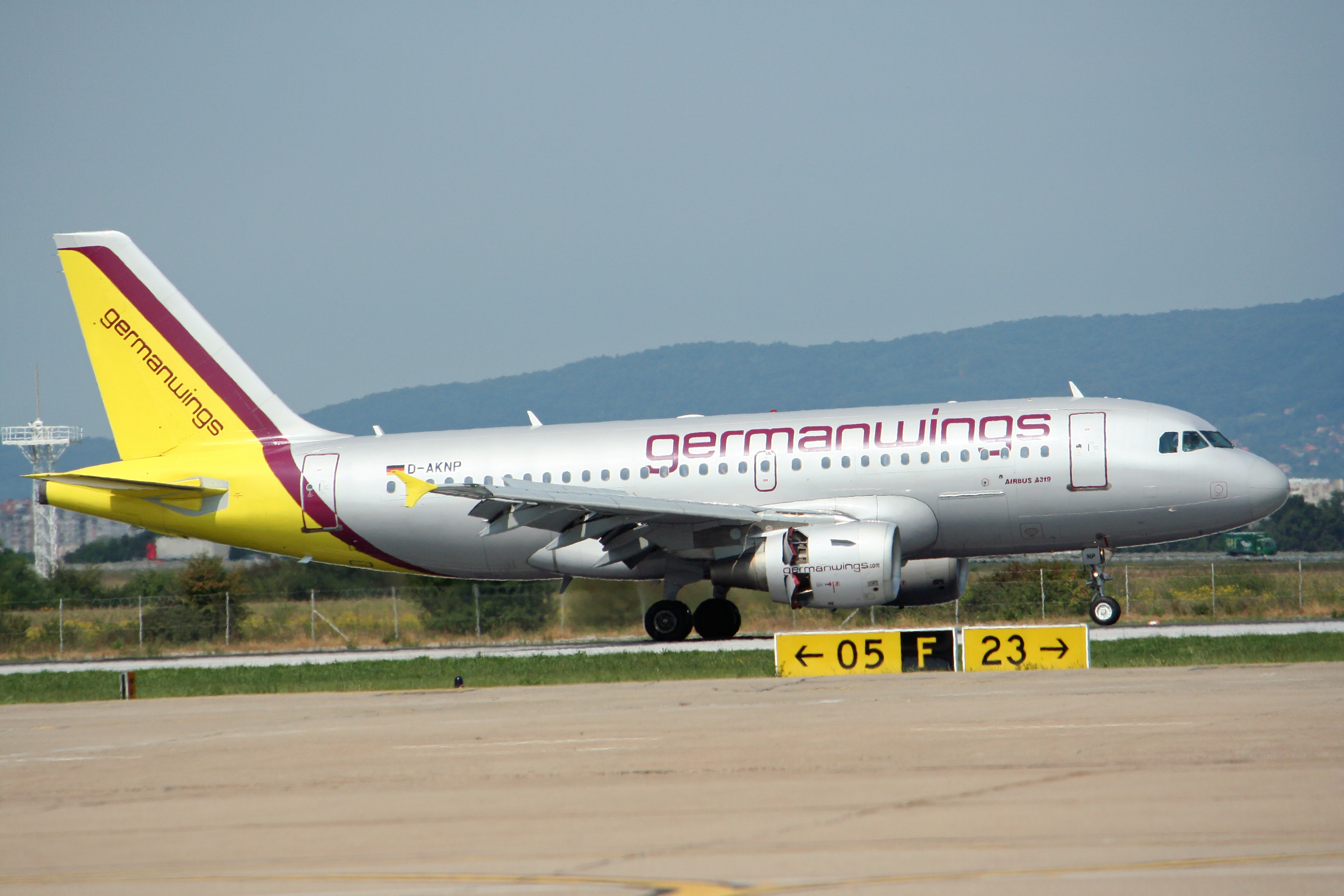 Germanwings A319 with open reverse